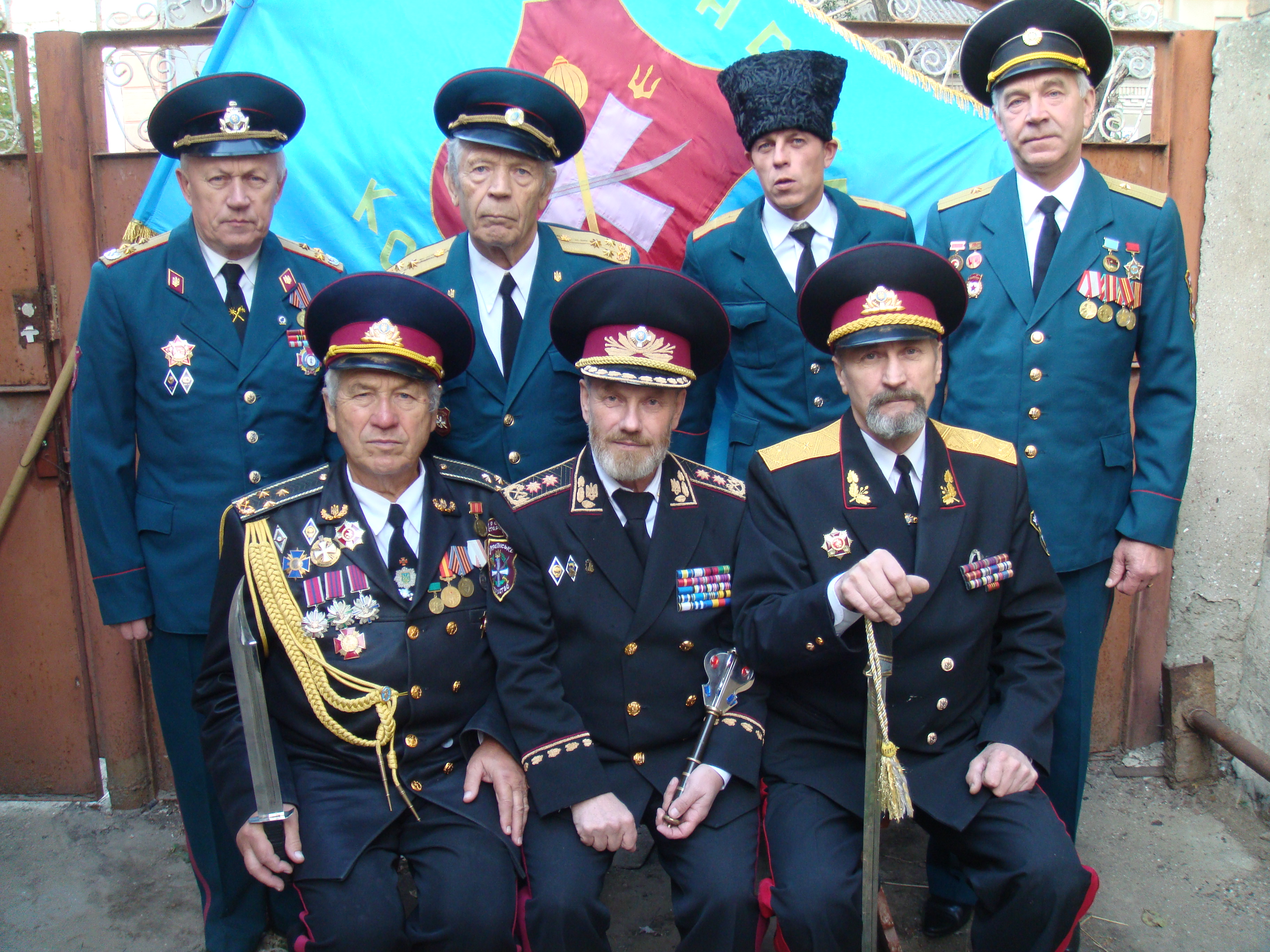 Засновники Буджацького козацтва. 2011 рік.